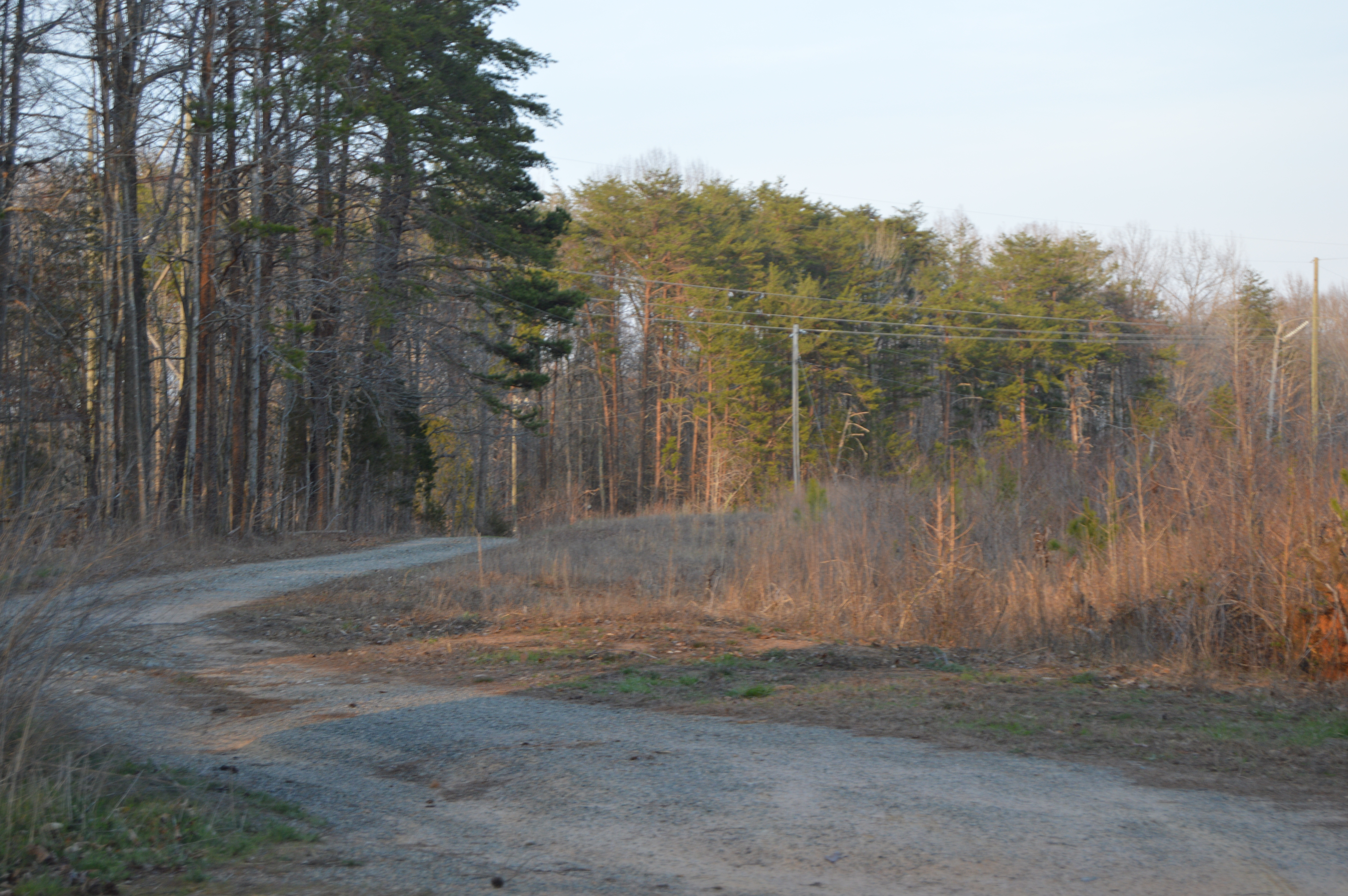 Entrance to the driveway for the Collins Ferry Historic District, located off Rock Barn Road west of Brookneal in Halifax County, Virginia, United States. The historic district is listed on the National Register of Historic Places.